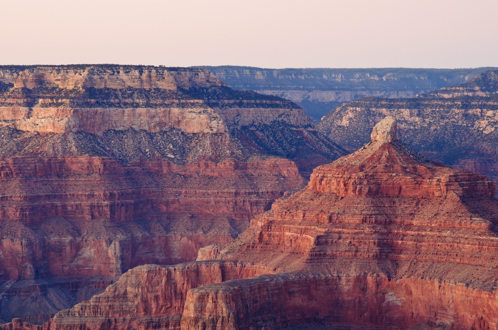 A detailed look at the north wall of the Grand Canyon, from Yavapai Point on the South Rim. The structure on the right is Isis Temple.